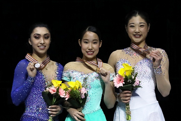 The ladies podium at the 2017 Four Continents Championships. From left: Gabrielle Daleman (2nd), Mai Mihara (1st), Mirai Nagasu (3rd)